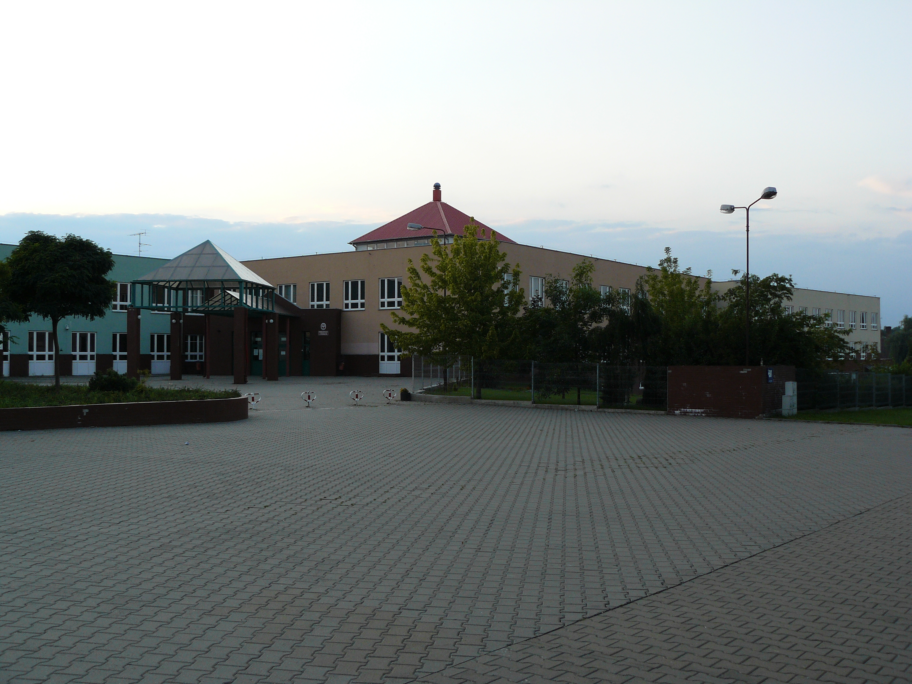 Gymnasium no. 5